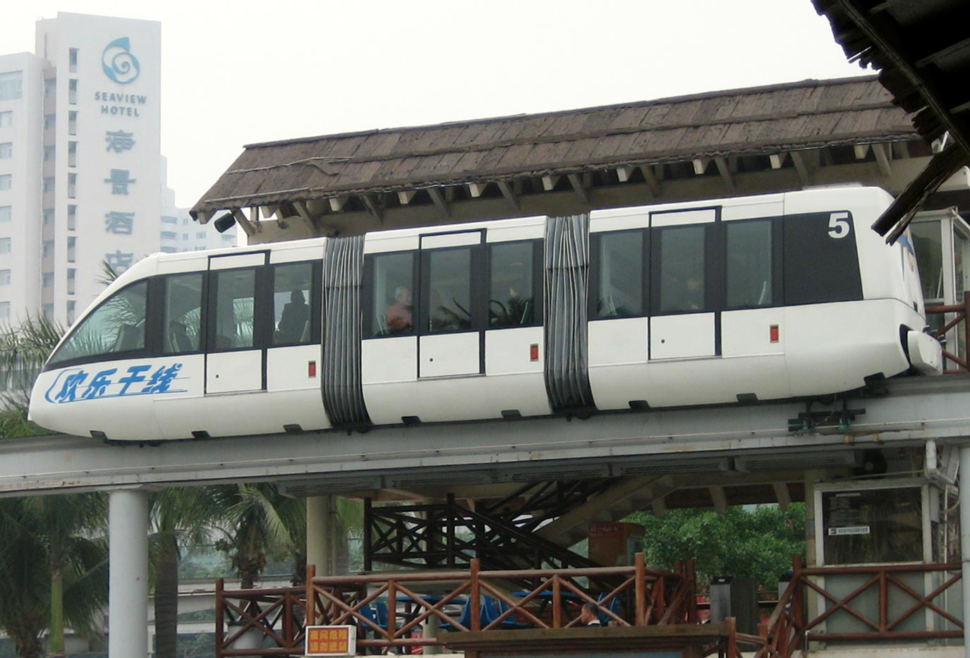 Happy Line Monorail in Shenzhen, China (made by Intamin) File downloaded from Flickr und modified, "Splendid China Monorail" Photo made by kmw7339 on March 14, 2006